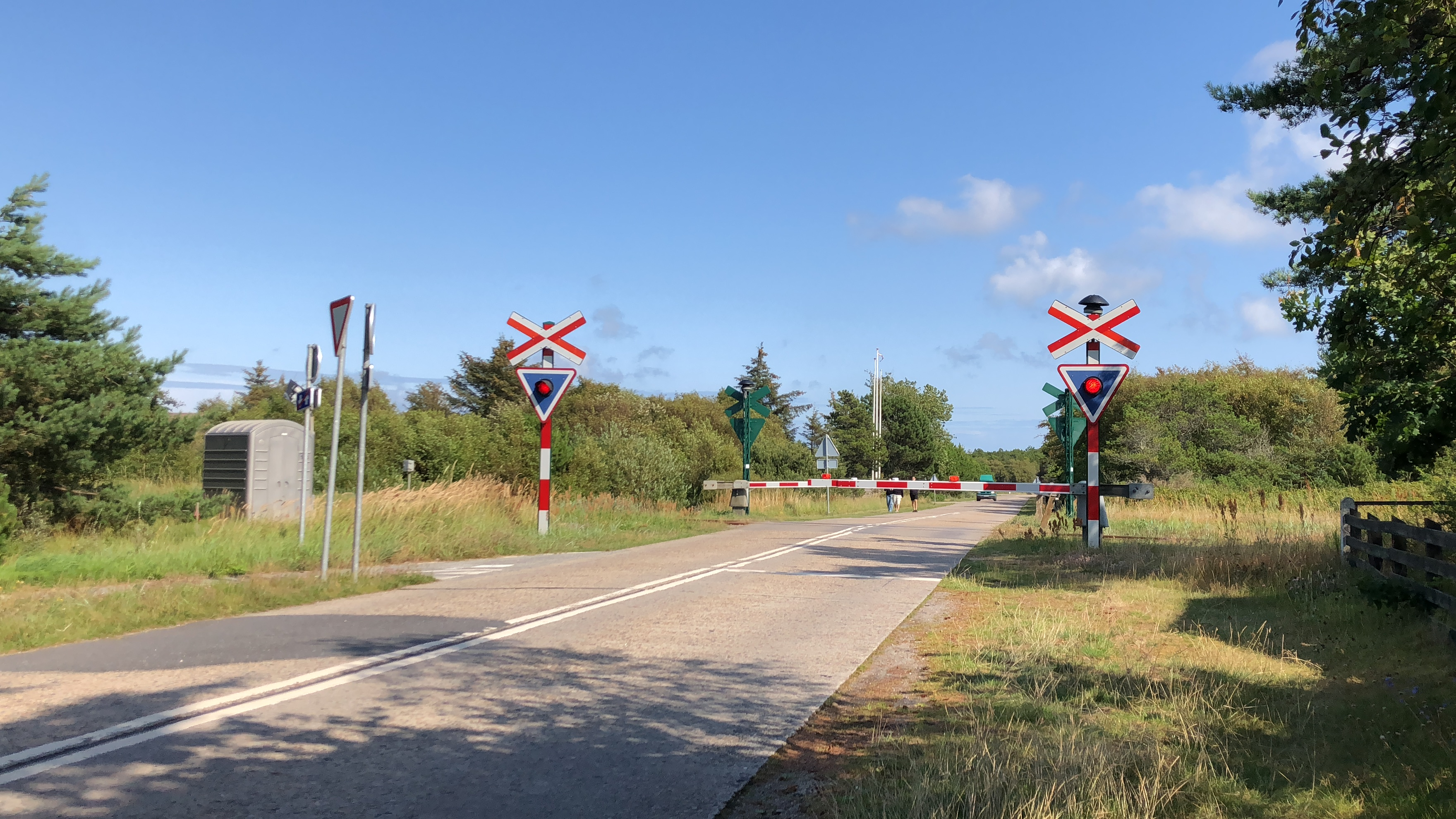 Automatic half barriers in outside Skagen, Denmark